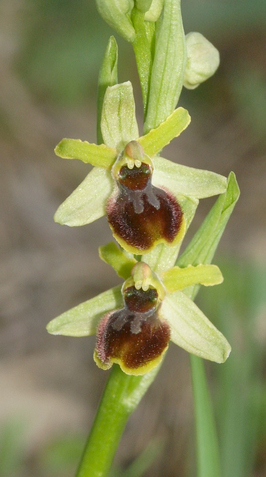 Ophrys araneola, Hohenlohe, Germany